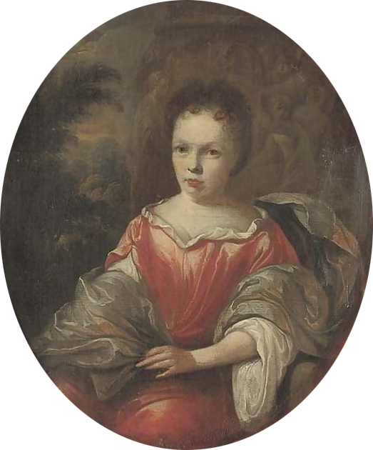 Portret of a lady